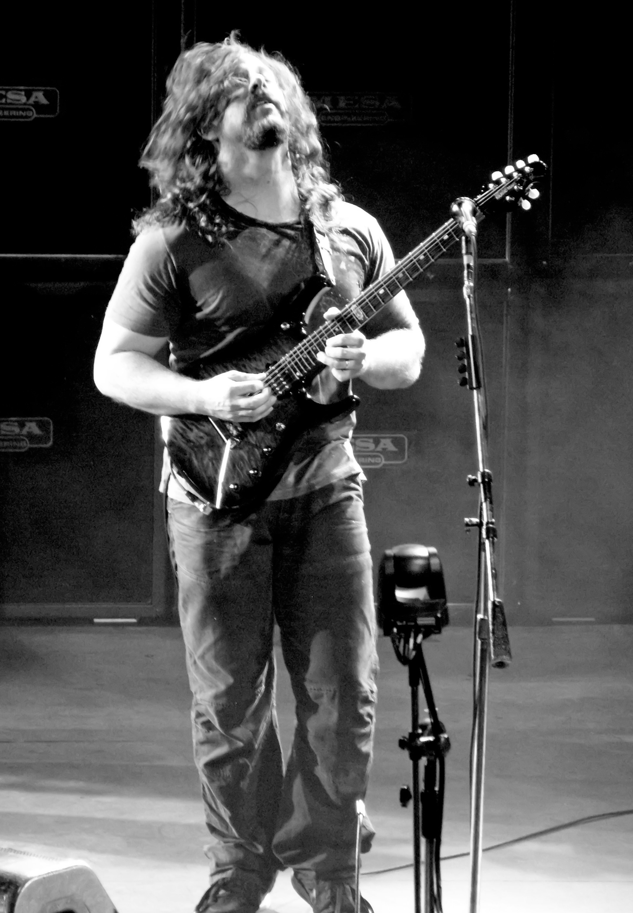 John Petrucci, american guitarist